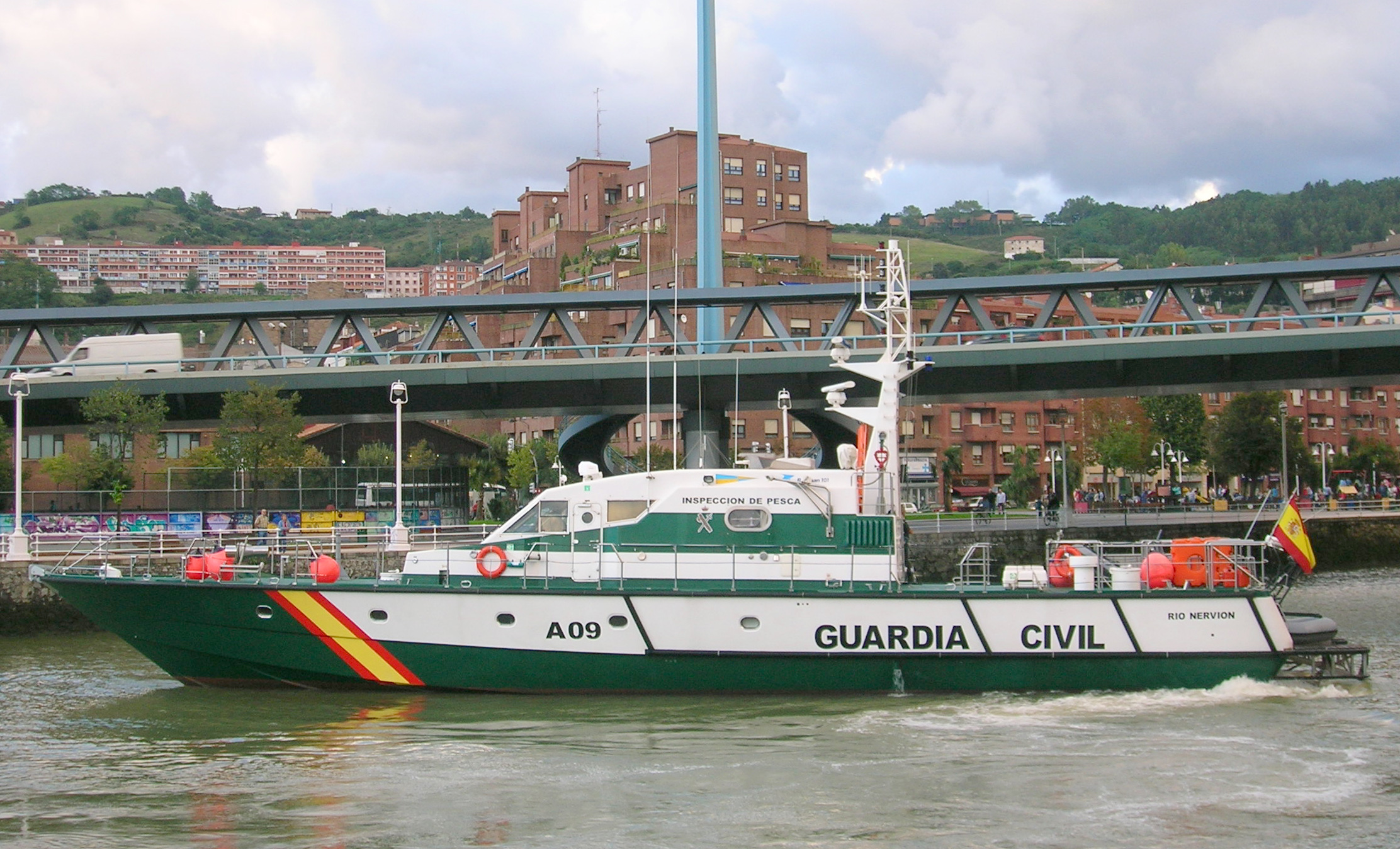 Río Nervión patrol boat of Spanish Guardia Civil in the Nervión ria in Bilbao. Behind, Euskalduna bridge, Deusto and Arangoiti. Biscay, Spain.